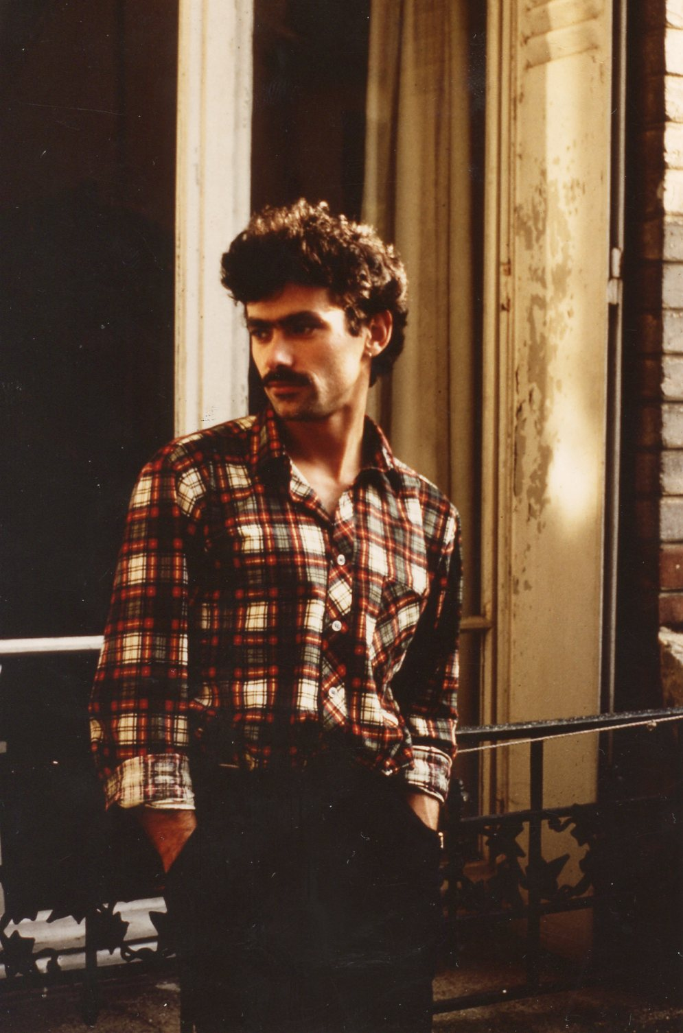 Krzysztof Jung, Paris 1983, phot. Wojciech Karpiński